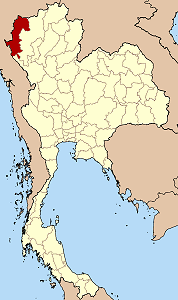 Map of Thailand highlighting Mae Hong Son province